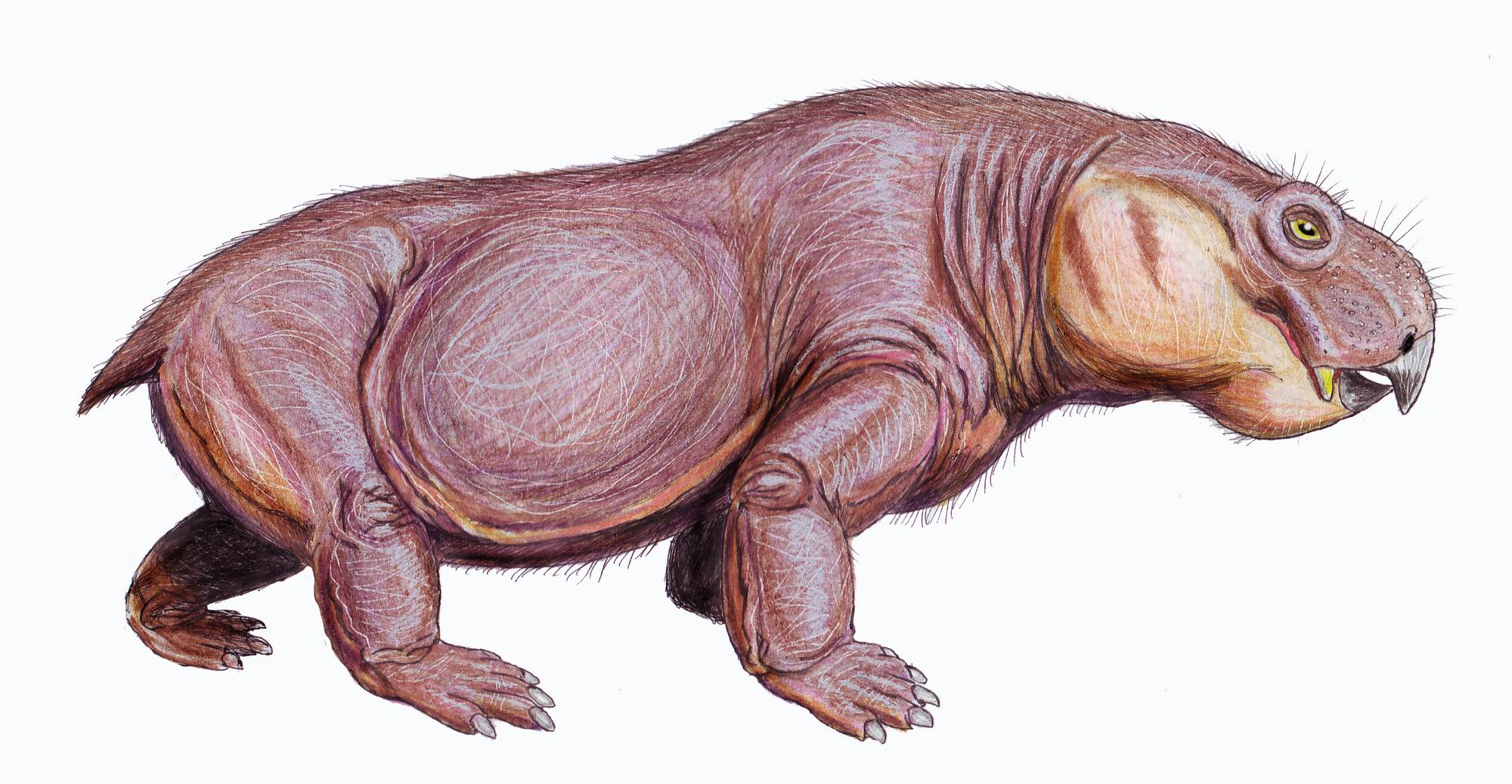 Australobarbarus pltycephalus - dicynodont from Late Permian Kotelnich locality (North-West Russia)